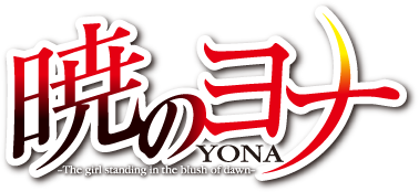 Akatsuki no Yona: Yona of the Dawn logo